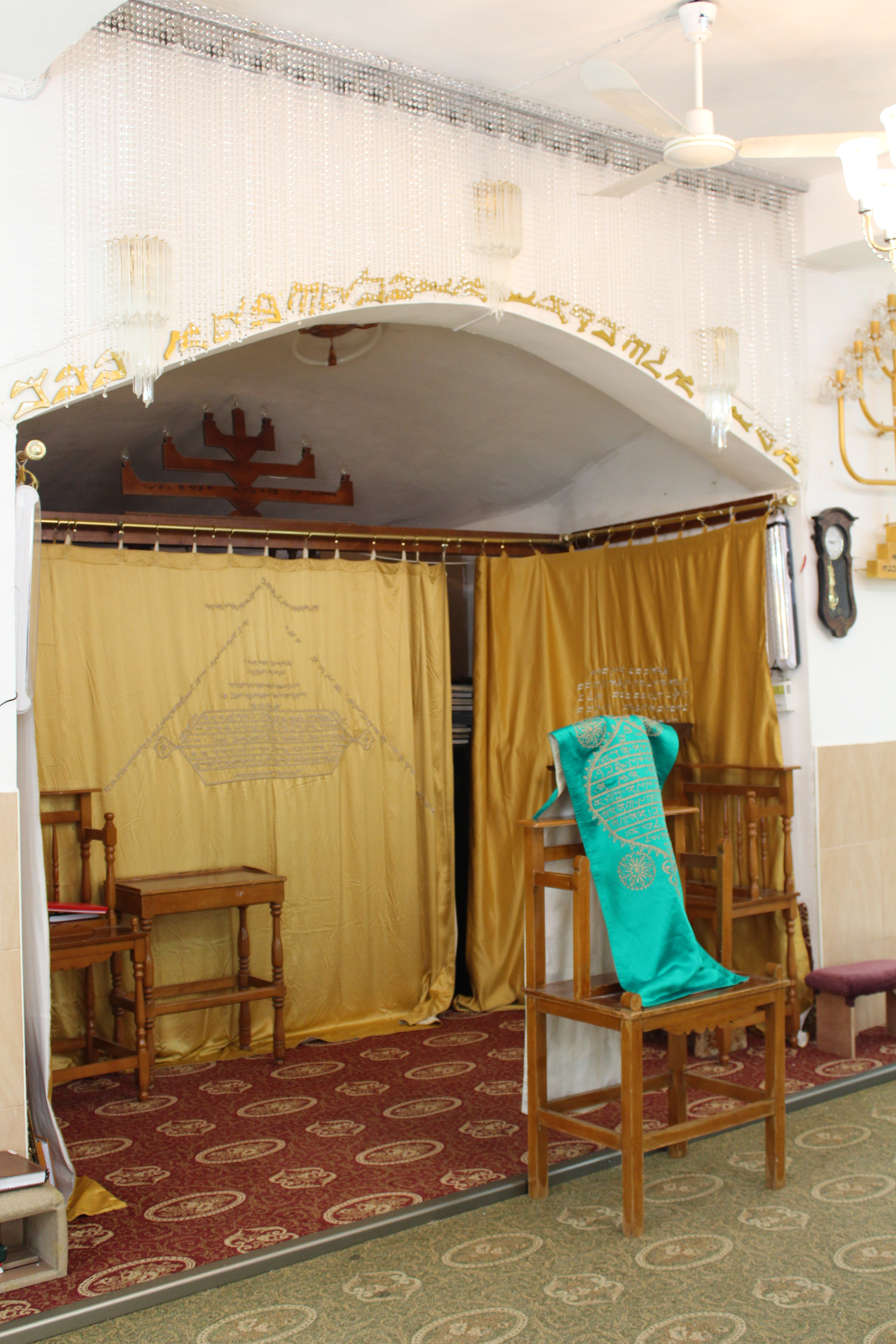 Samaritan Torah scrolls,Mount Gerizim Samaritan synagogue, Mount Gerizim This image was taken as part of the Elef Millim project trip to Mount Gerizim, near the town of Nablus (biblical Shechem) which was held on Friday, 26th April 2013. To view all images uploaded as part of the Elef Millim Project